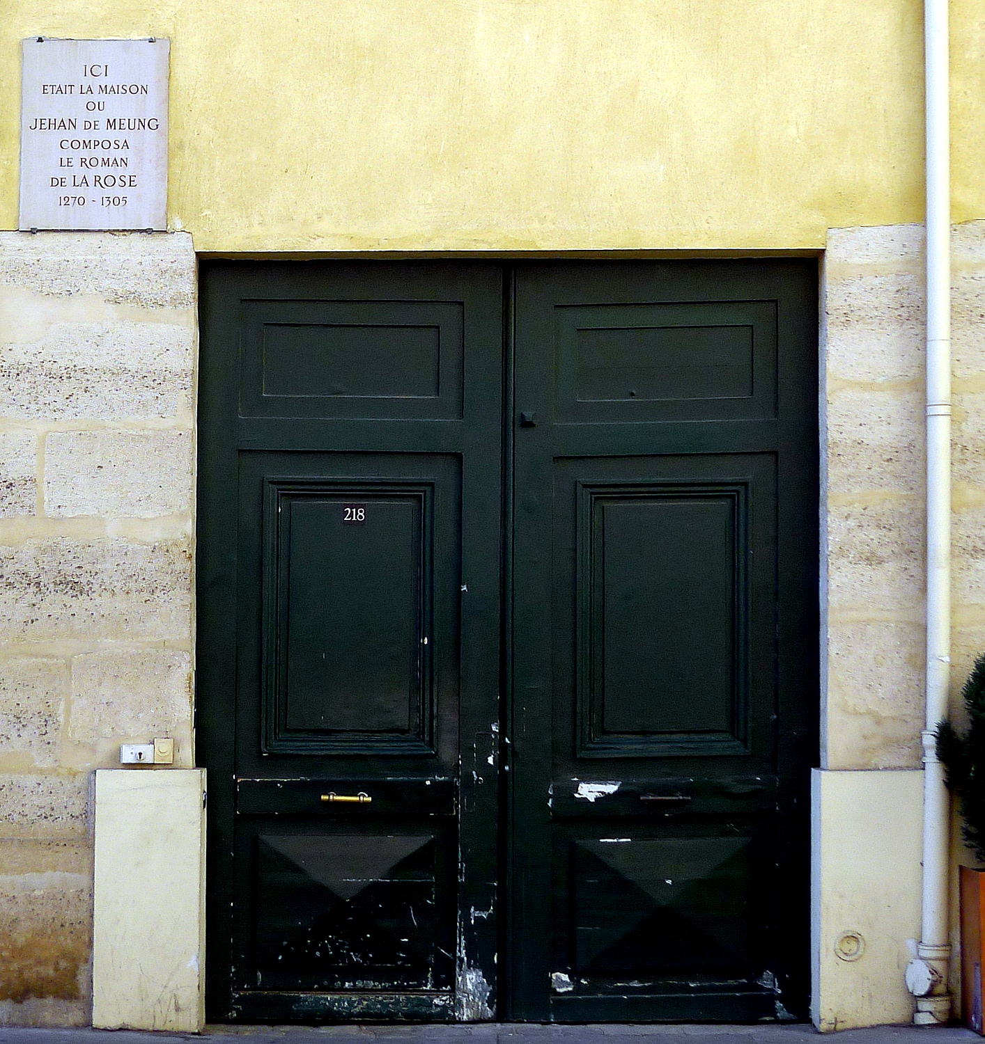 Saint-Jacques street - Paris